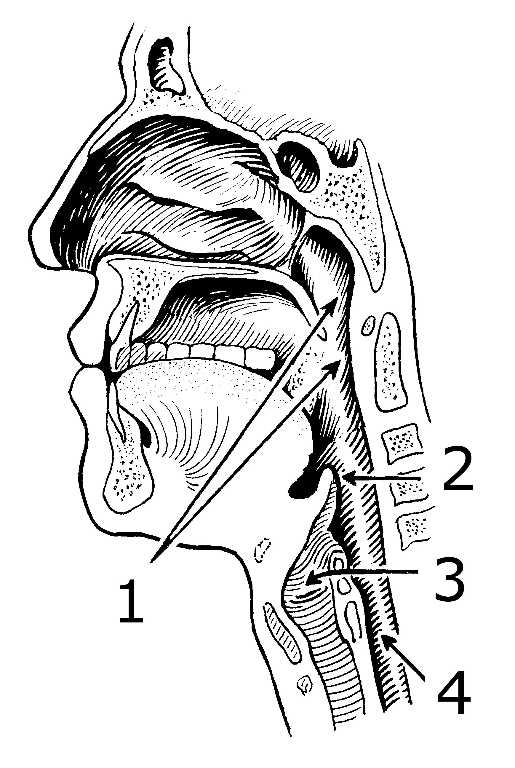 Line art drawing of a pharynx. Pharynx Epiglottis Larynx Esophagus